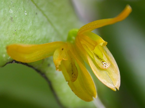 Acianthera luteola